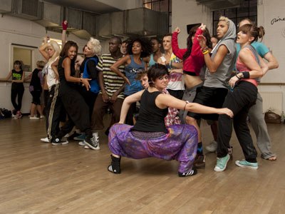 Dancers in class at Pineapple Dance Studios, Covent Garden, London - Teacher: Mark Battershall